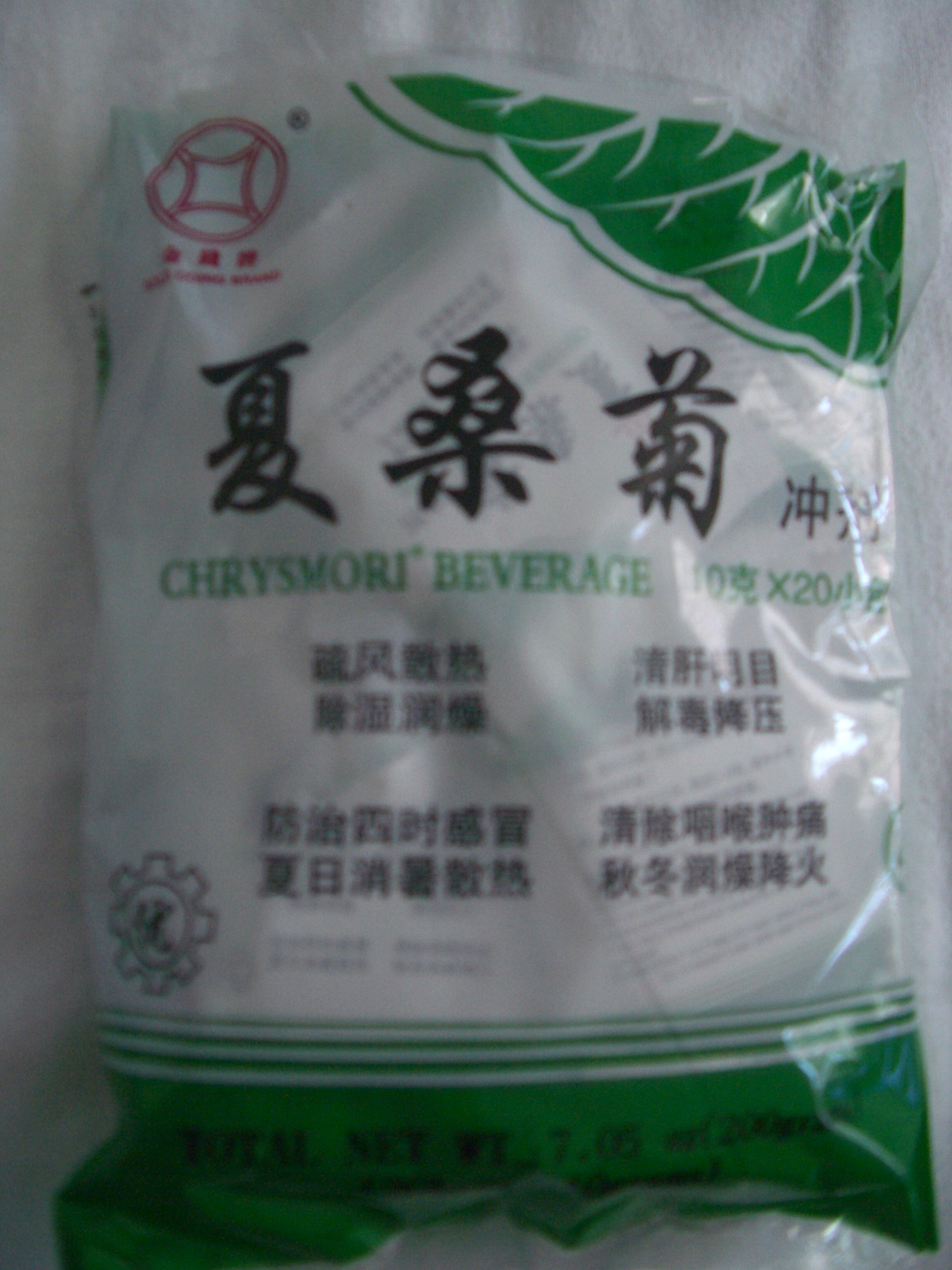 Xia Sang Ju in ready-to-drink small packets.